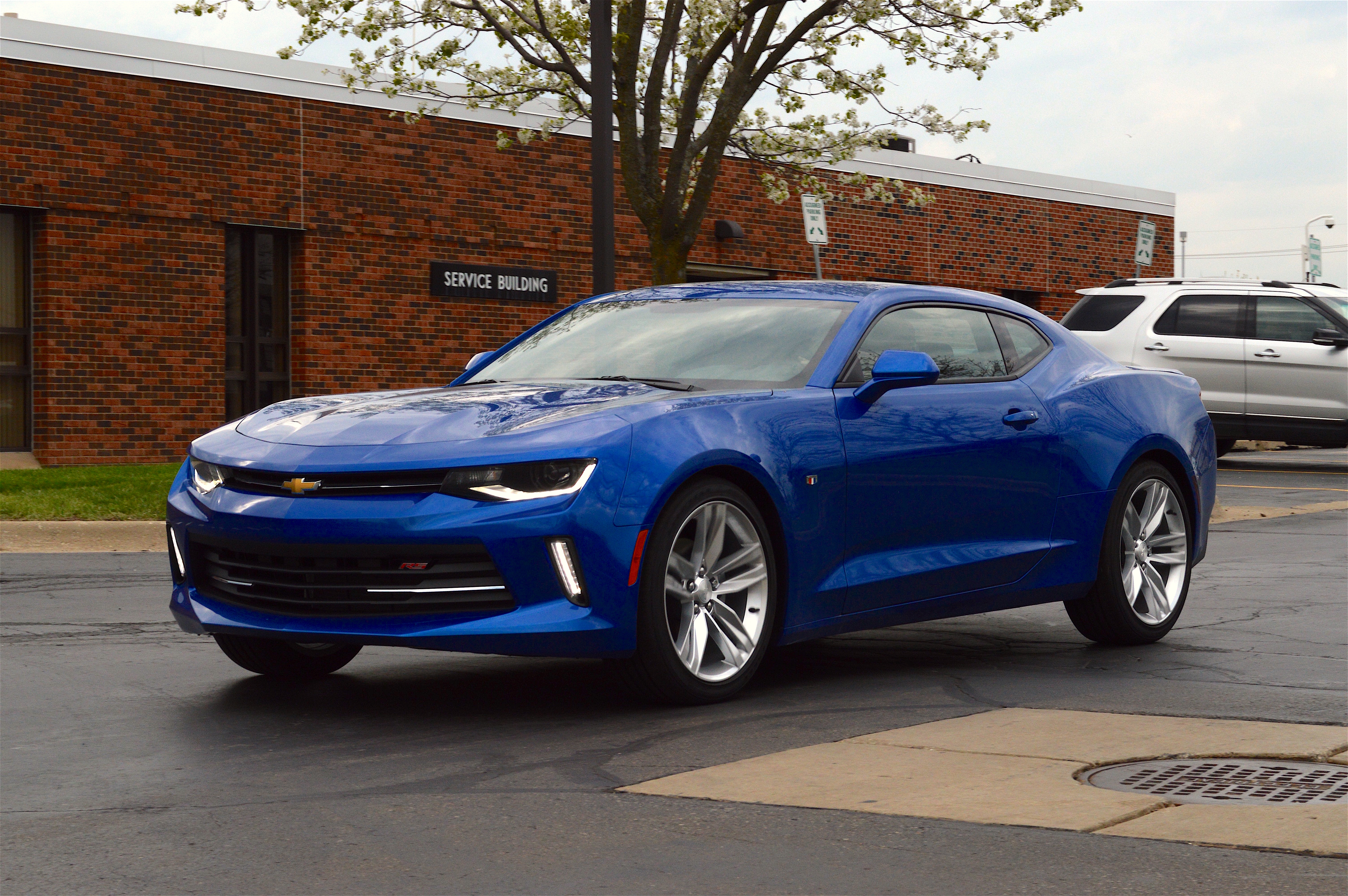 Chevrolet Camaro 2.0 Turbo